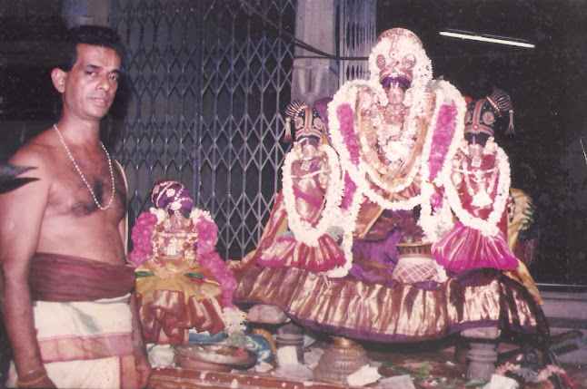 ANNANKOIL